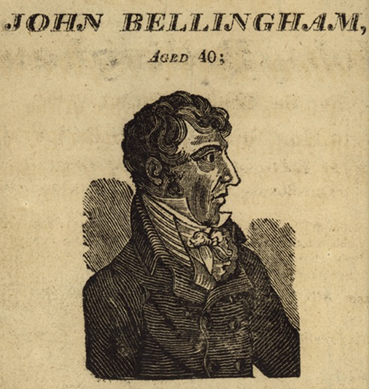 An engraving of the assassin John Bellingham, who killed the British prime minister Spencer Perceval in 1812